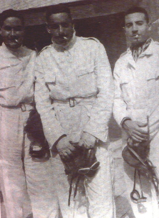 the first 3 Egyptian pilots, they were the base of the Royal Egyptian Air Force (REAF). On 2 June 1932 Almaza Airport witnessed the start of the Royal Egyptian Air Force (REAF) by arrival of the first 5 moths aircraft from Hatfield airfield north of London flown by Abdel-Minuim Miquati, Ahmed Abdel-Raziq, Fuad Abdel-Hamid and 2 other British pilots. The Pilots were greeted by the Egyptian king and a large crowd of excited Egyptians.[3]